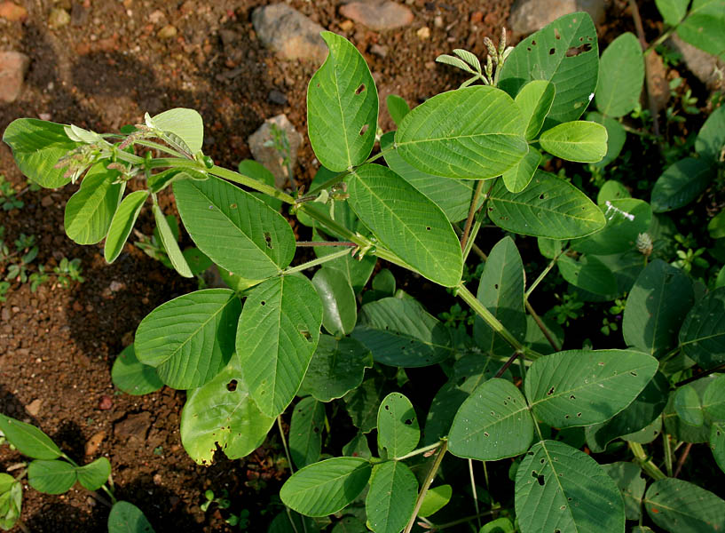 Desmodium dichotomum (Willd.) DC. at Ananthagiri Hills, in Rangareddy district of Andhra Pradesh, India.